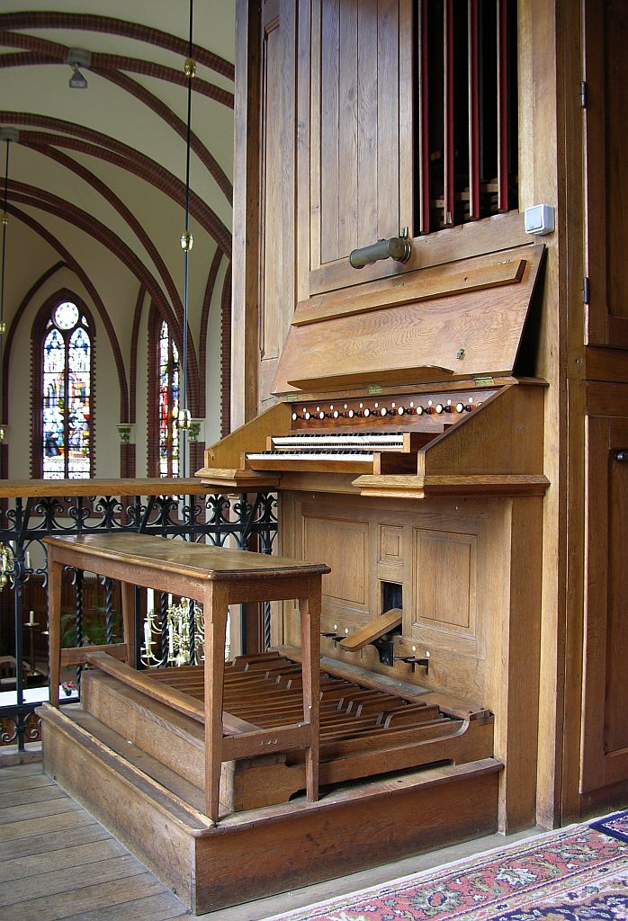 Picture of the organ in the monastery of the Lazarists in Panningen, Limburg, NL